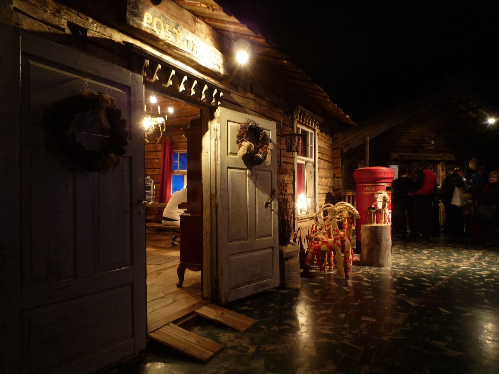 The Post Office at Santa Park in Rovaniemi, Lapland, Finland